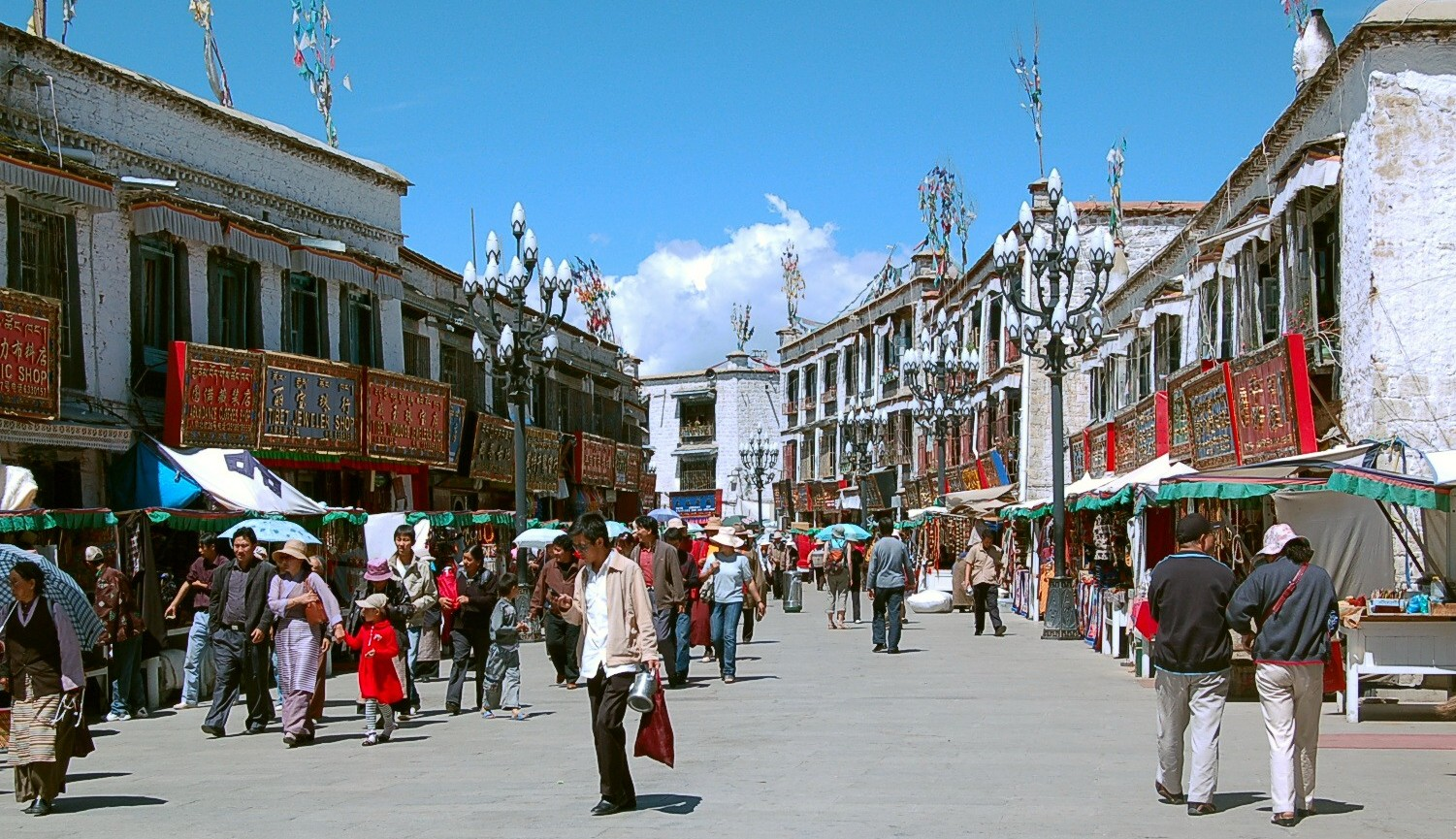 The Barkhor in Lhasa (Tibet) 2007